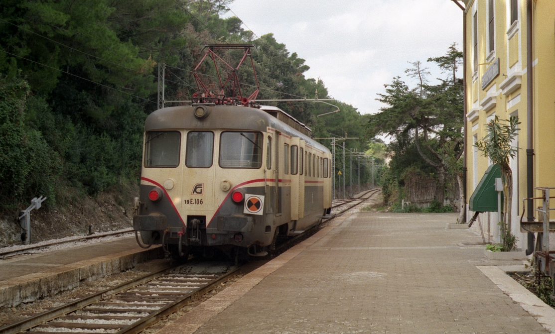 Ferrovie del Gargano operate through trains from Foggia through to the Gargano peninsular. Services run the route from the junction station of San Severo on the main FS/Trenitalia line. On the day of this visit, 6 November 2002 I had no forewarning about engineering works on the branch. The first I heard was on the train having left San Severo that there would be a replacement buses, two infact, if I wanted to get to the end of the line! This was because, unusually two sections were closed meaning a "missing bit" in the middle and from here, Vico del Gargano-San Menaio to the branch line terminus, Peschichi-Calenella. Therefore the unit seen here was effectively cut off from the rest of the system. Single car E.106 waits at for the rail replacement bus connection before forming train 6, 10:40 Vico del Gargano-San Menaio to Cagnano-Varano.